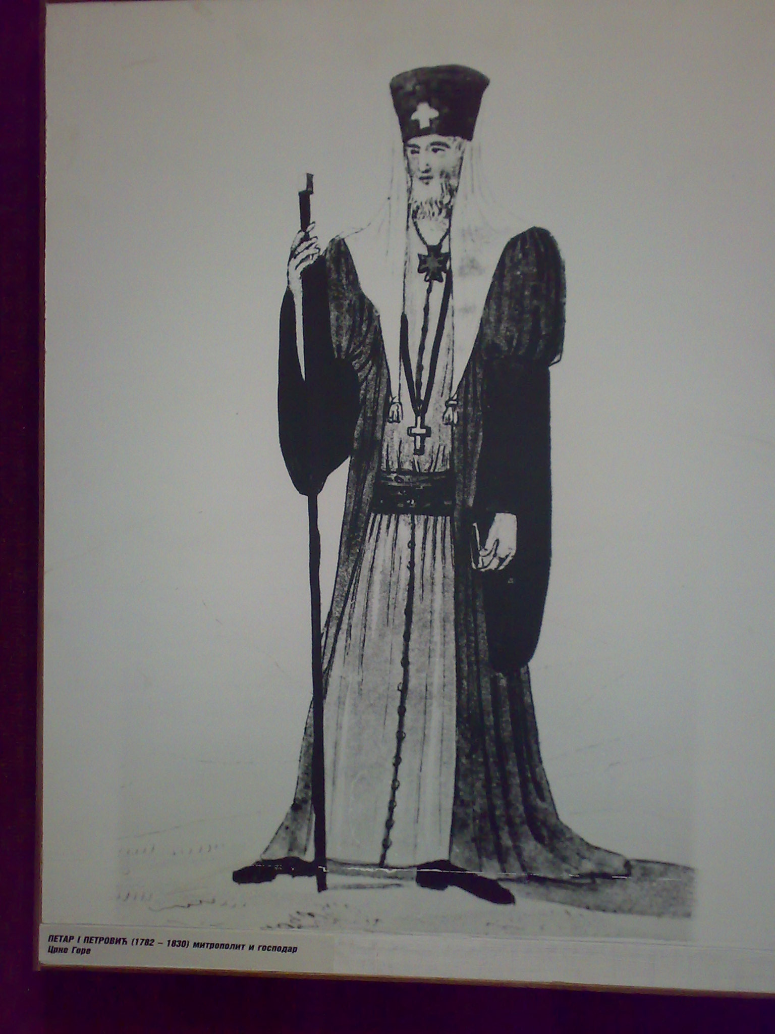 Drawing of priest-king Petar Petrovic of Cetinje, 1782-1830, Montenegro. The drawing is original and since long expired as regards copyright.